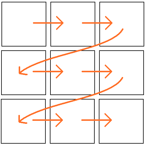 The reading order of a generic western-style comic page.